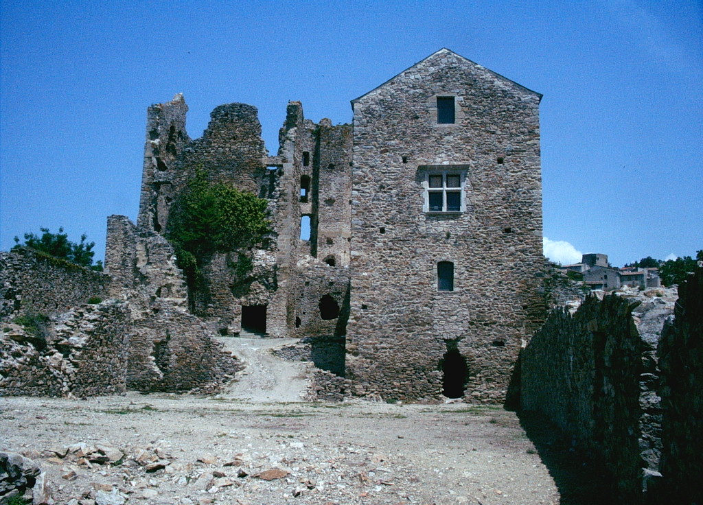 Castle of Saissac (Aude, 11)